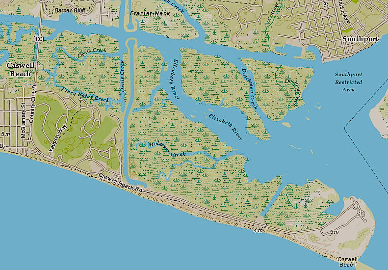 Map showing key features of Caswell Beach NC to include roads, developed area and natural vegetation.